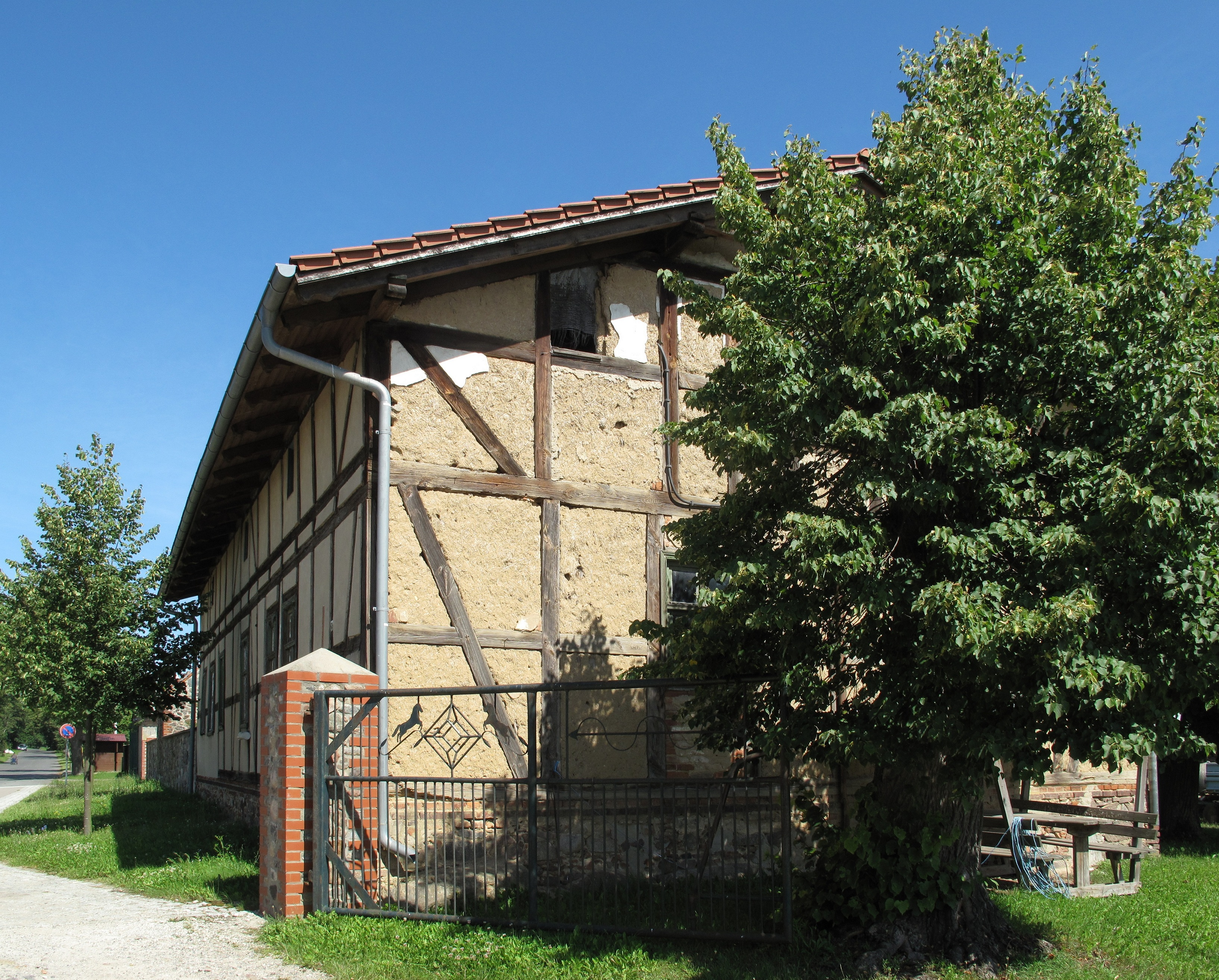 Pritzhagen is a village of the municipality Oberbarnim in the District Märkisch-Oderland, Brandenburg, Germany. It is situated in the Märkische Schweiz Nature Park. The village green with its pond and the perimeter fieldstone-walls was extensively renovated in 2004.